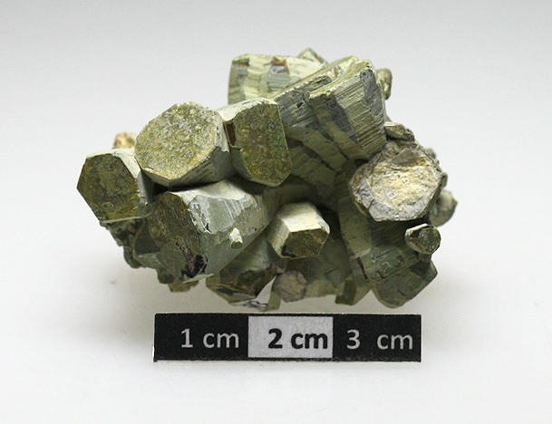 Parisite-(La, Bastnäsite-(La) Dimensions: 50mm x 35mm x 35mm Locality: Mula claim, Tapera, Novo Horizonte, Bahia, Brazil Description: One of the best samples of the new mineral parisite-(La). Luiz Menezes collection.